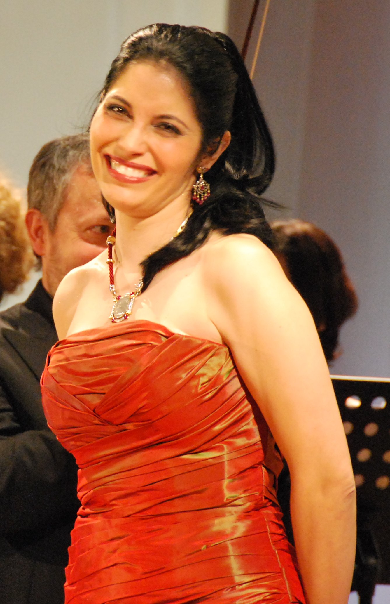 Vivica Genaux, Misteria Paschalia Festival, Kraków Philharmonic, 05.04.2010.